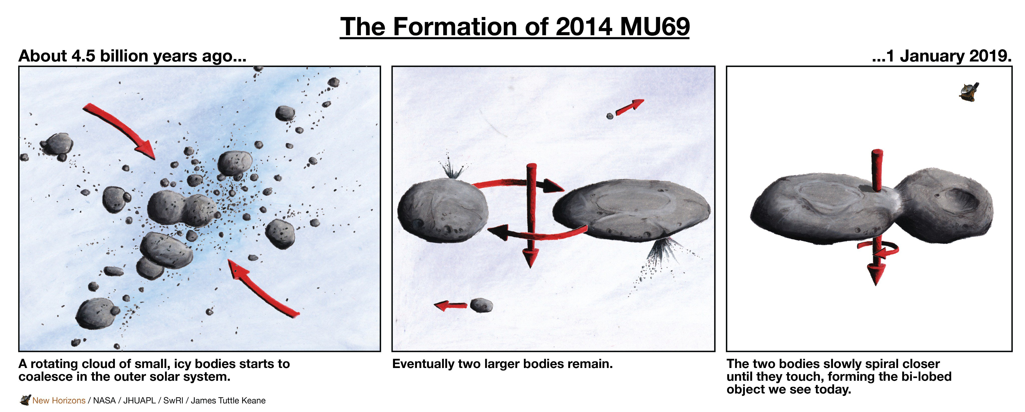 Ultima Thule used to be 2 separate objects. It likely formed over time as a rotating cloud of small, icy bodies started to combine. Eventually, 2 larger bodies remained & slowly spiraled closer until they touched, forming the bi-lobed object we see today.